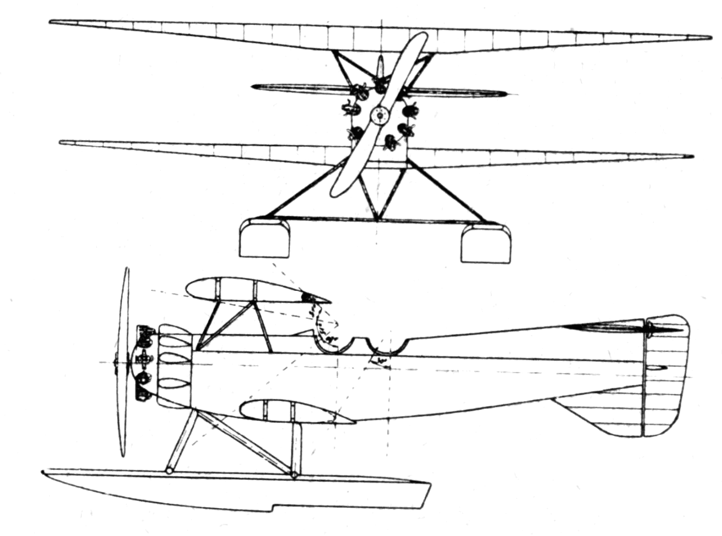 Focke-Wulf W 4 2-view drawing from Le Document aéronautique March,1929